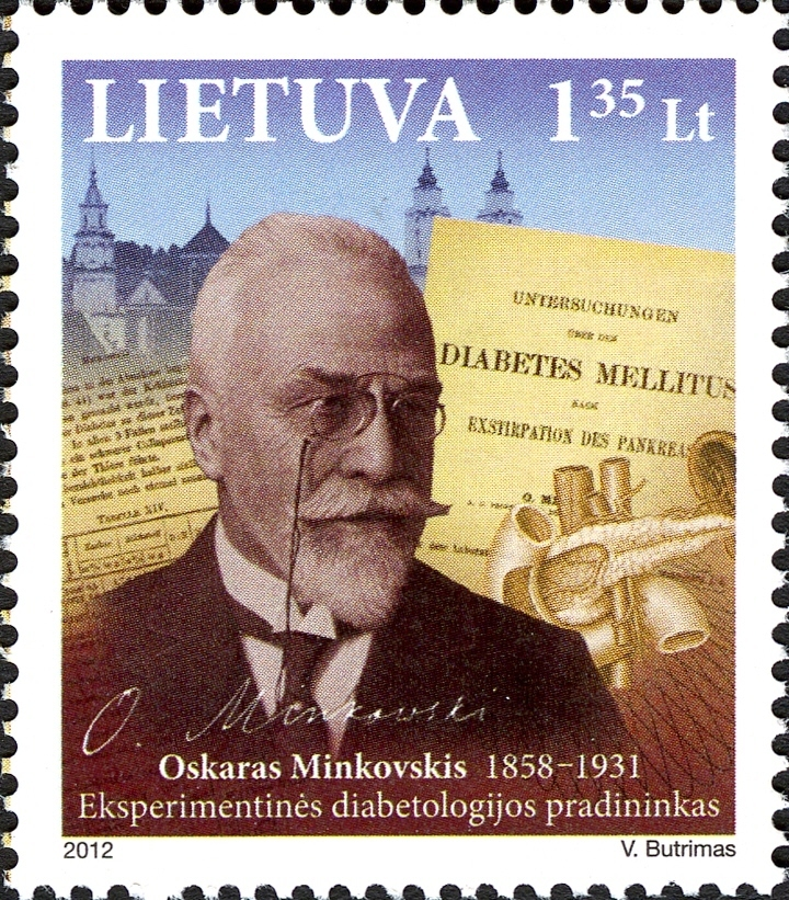 Oskar Minkowski - Founder of the Experimental Diabetology